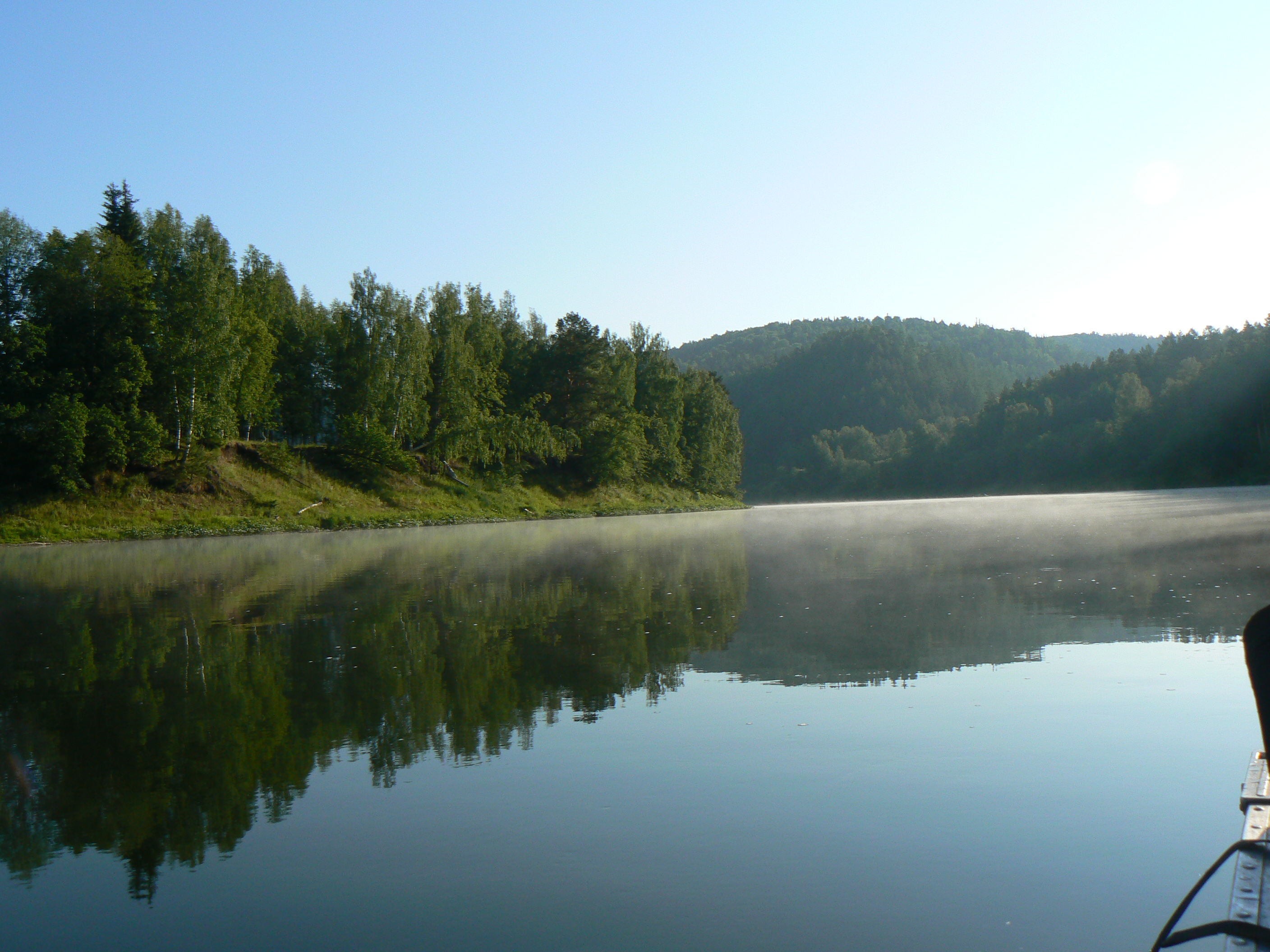 Ufa River on the border of the Sverdlovsk Oblast and Bashkortostan.